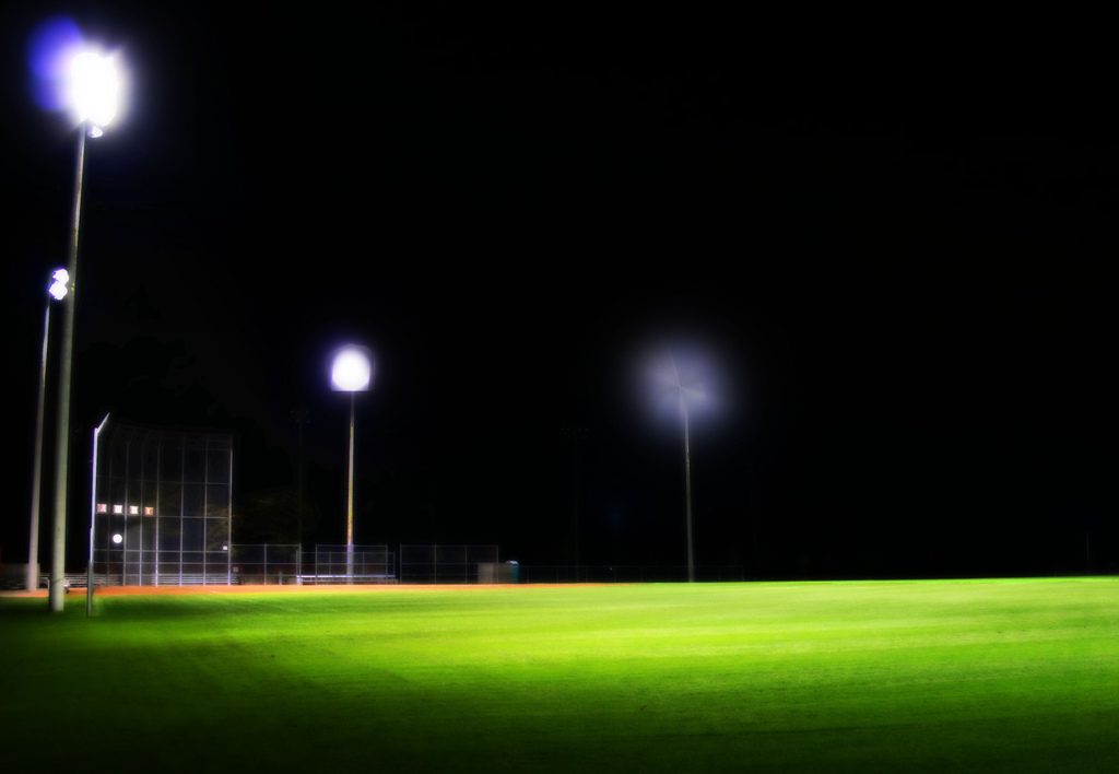 Ajax Sportsplex Baseball Park